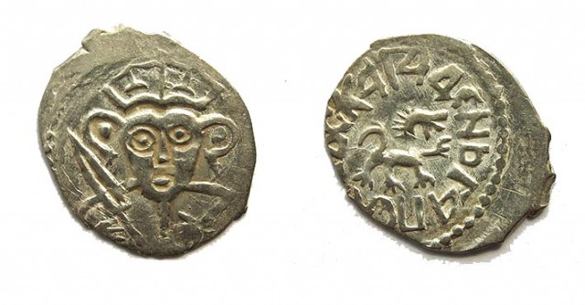 Coin minted in Pskov republic from 1425 - 1510.